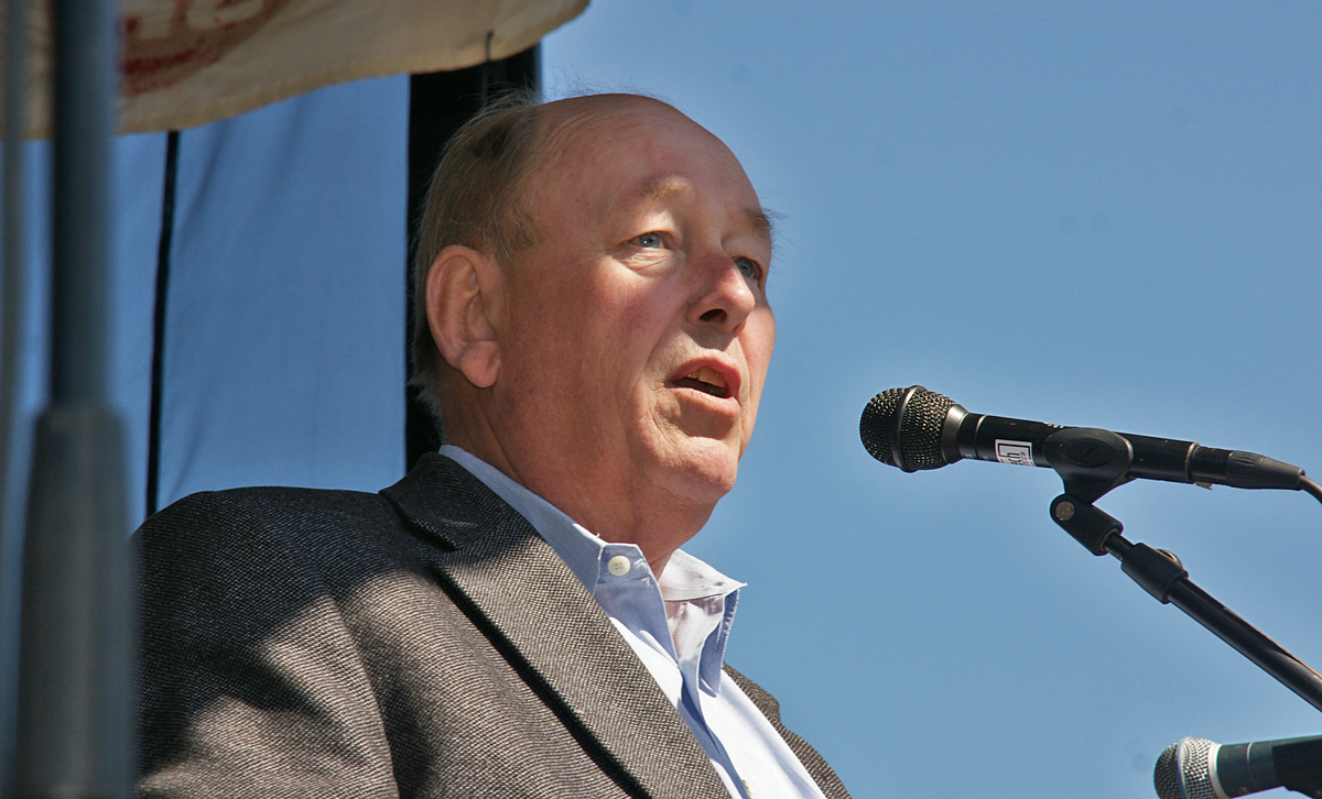 Harald Børsting - President of the Danish confederation of trade unions during International Workers Day (May 1) in Roskilde, Denmark